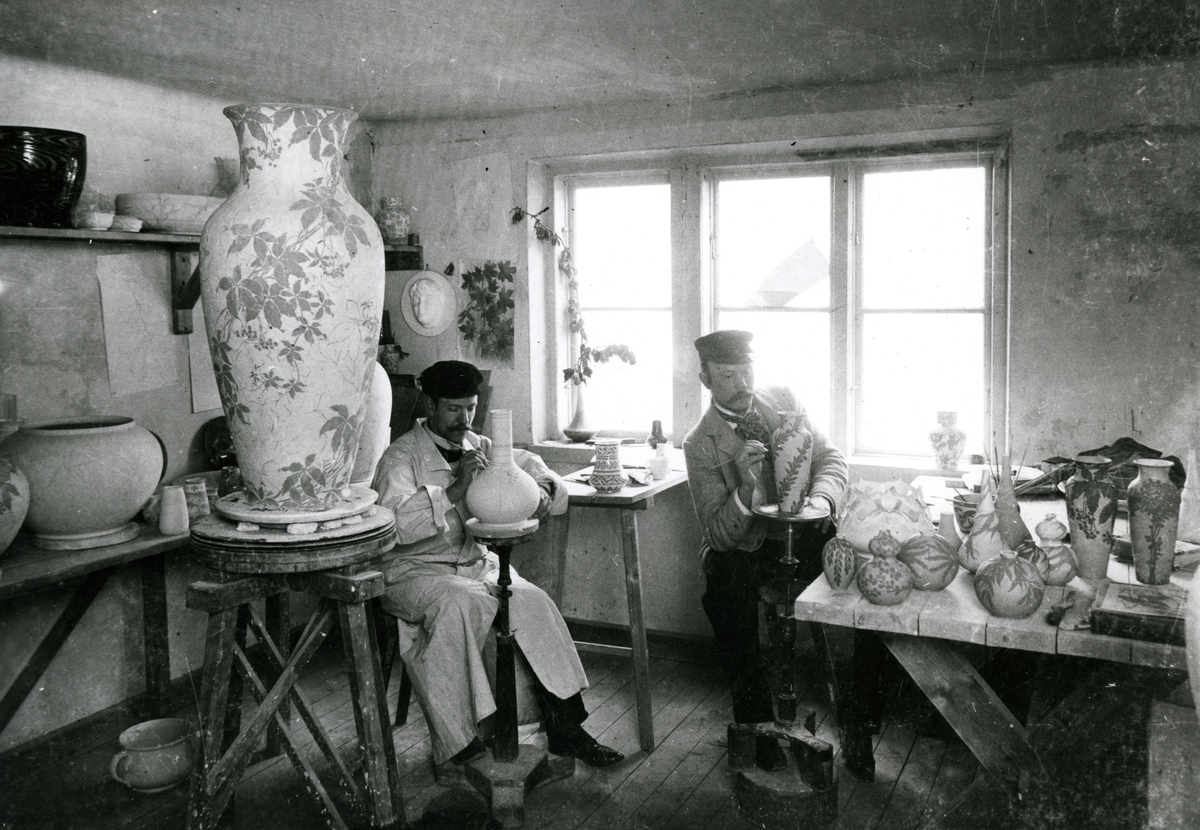 Josef Ekberg & Gunnar Wennerberg at the Gustavsberg china factory, around 1900.